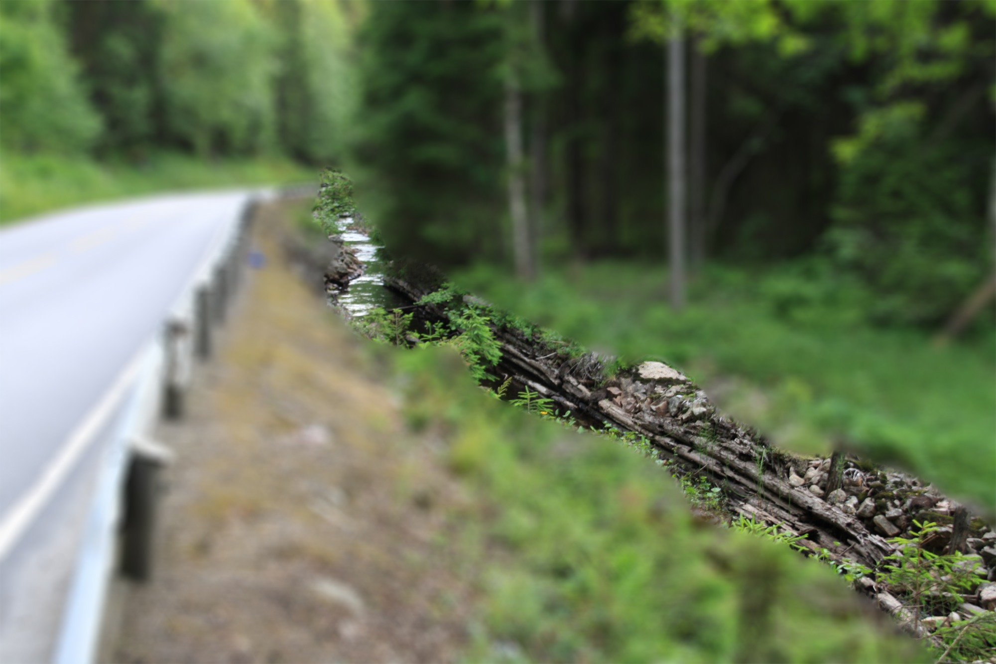 The Soot Canal - picture of old Timberpass (water transport)